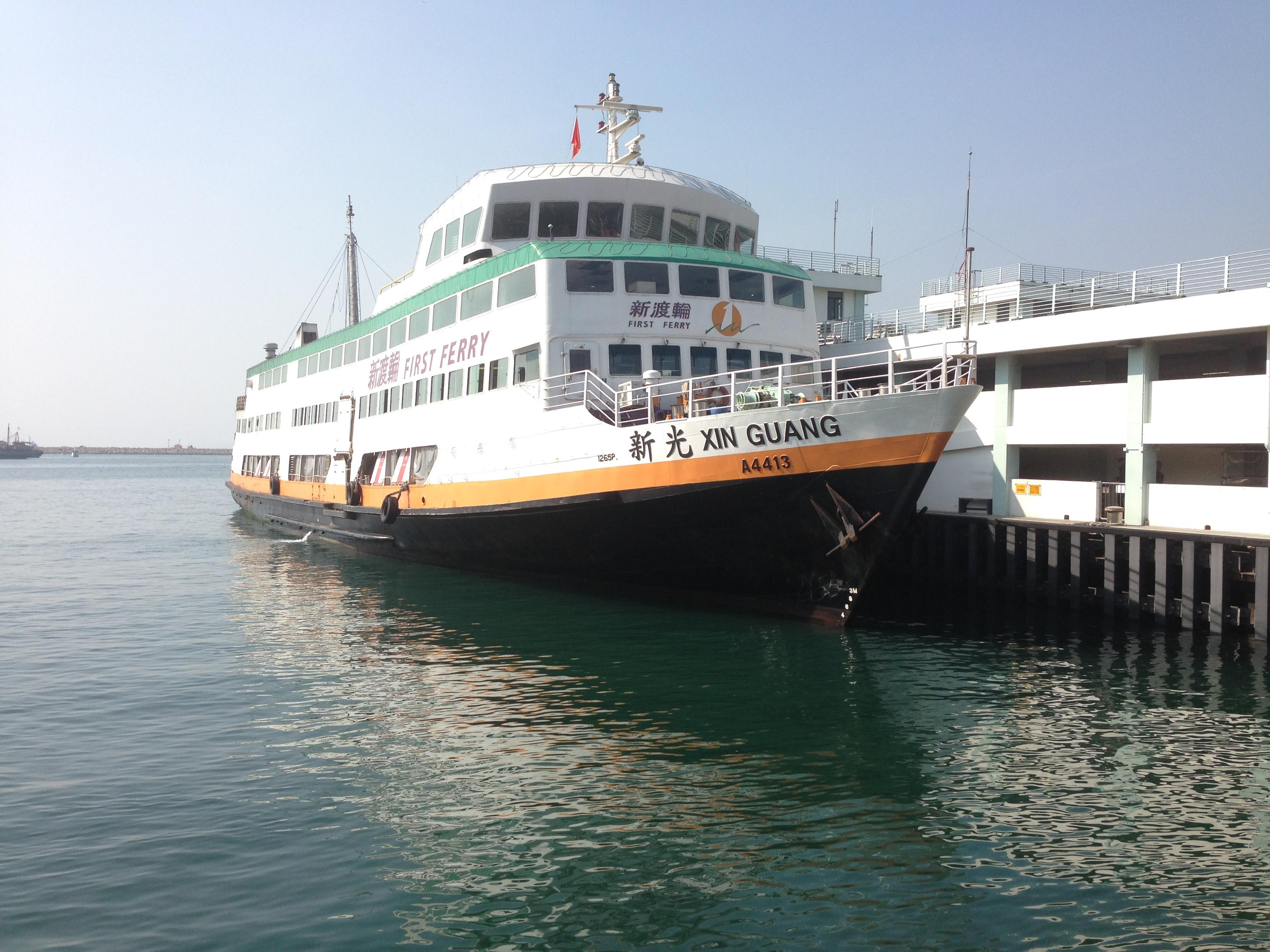 New World First Ferry "Xin Guang" at pier in Cheung Chau